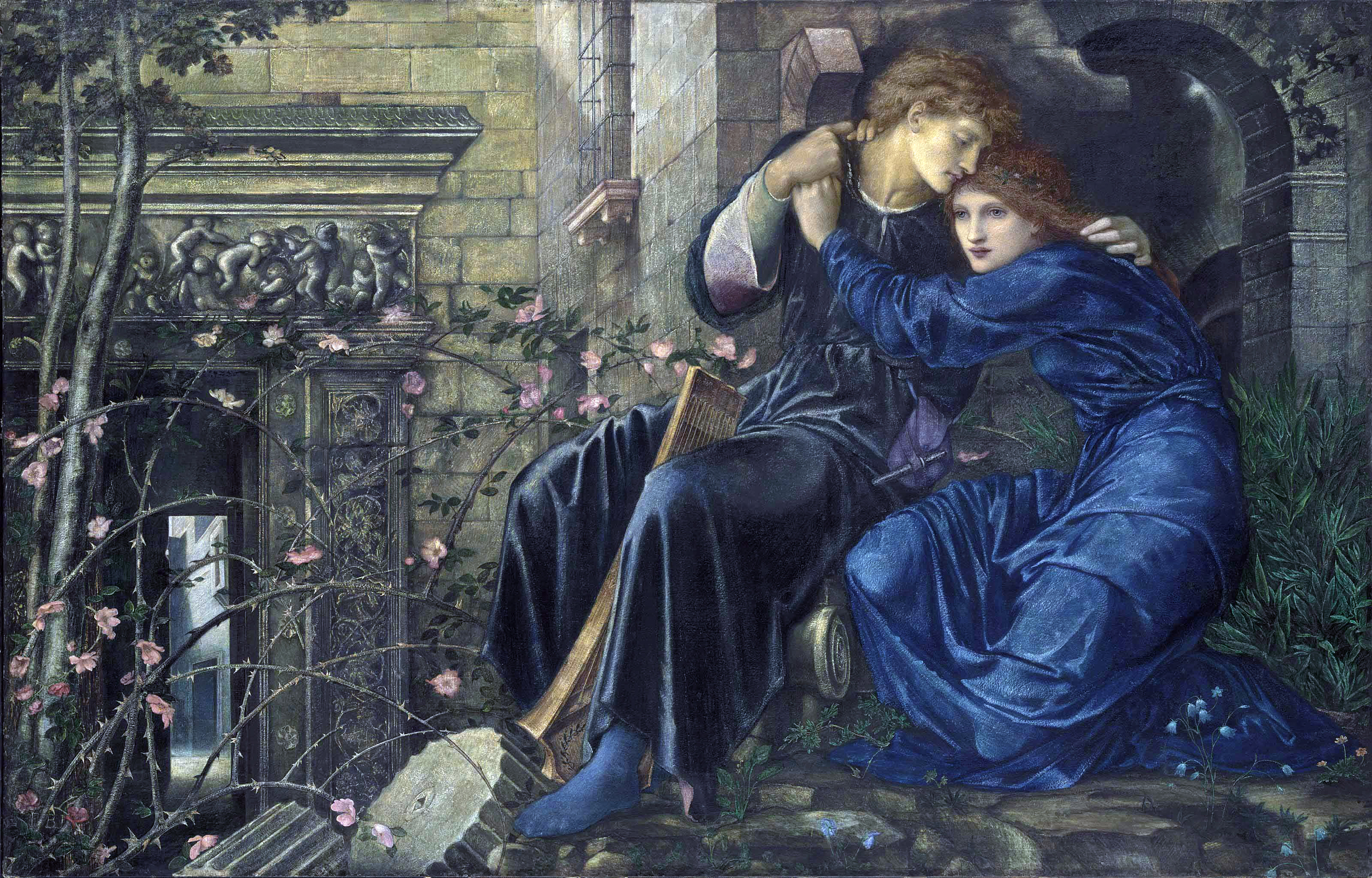 signed with initials (lower left), and signed again 'Edward. Burne. Jones' (on the backboard), with typed inscription 'This Picture, being painted in WATER/COLOUR, would be injured by the slight-/est moisture./Great care must be used whenever/it is removed from the Frame.' and signed again 'Edward Burne-Jones' (on a label attached to the reverse of the frame) watercolour, bodycolour and gum arabic on paper, extended along the lower edge 38 x 60 in. (96.5 x 152.4 cm.) In the original frame Read the full description at the "Talk page"